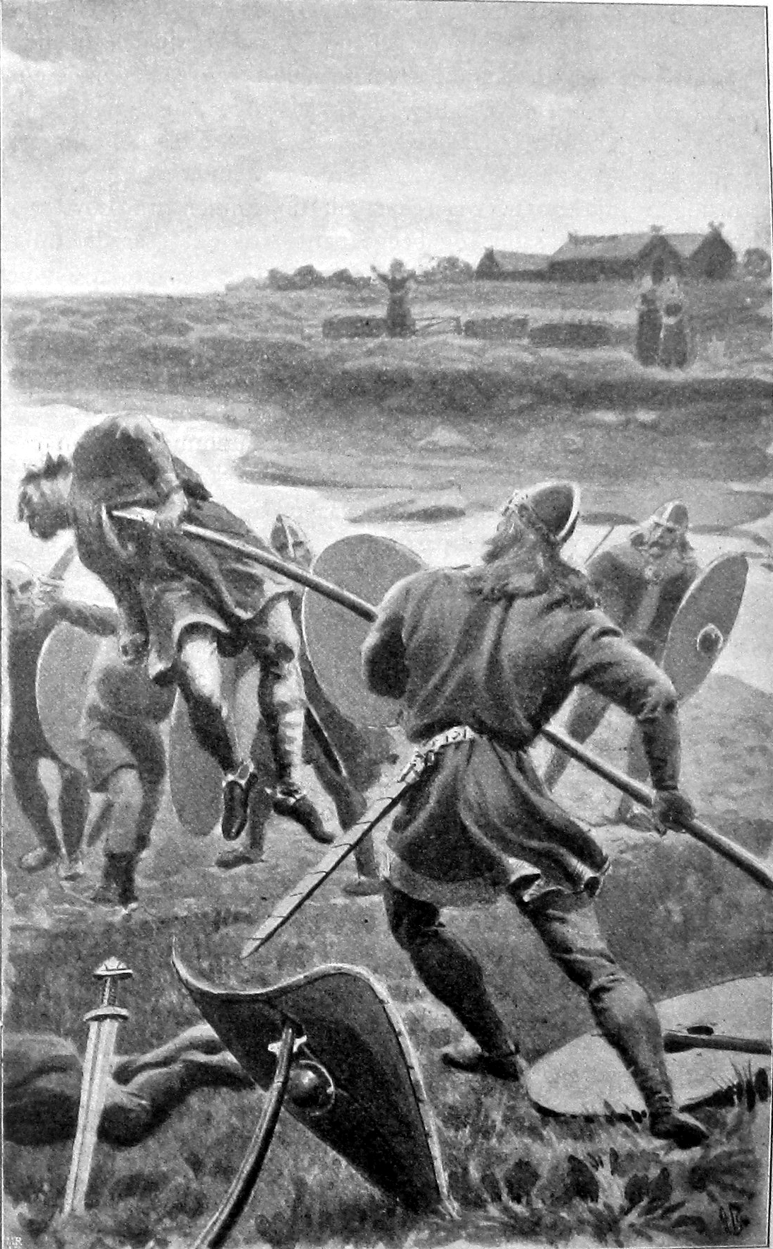 Illustration to Njáls saga, chapter 54. Gunnar á Hlíðarenda defends himself successfully against multiple attackers.